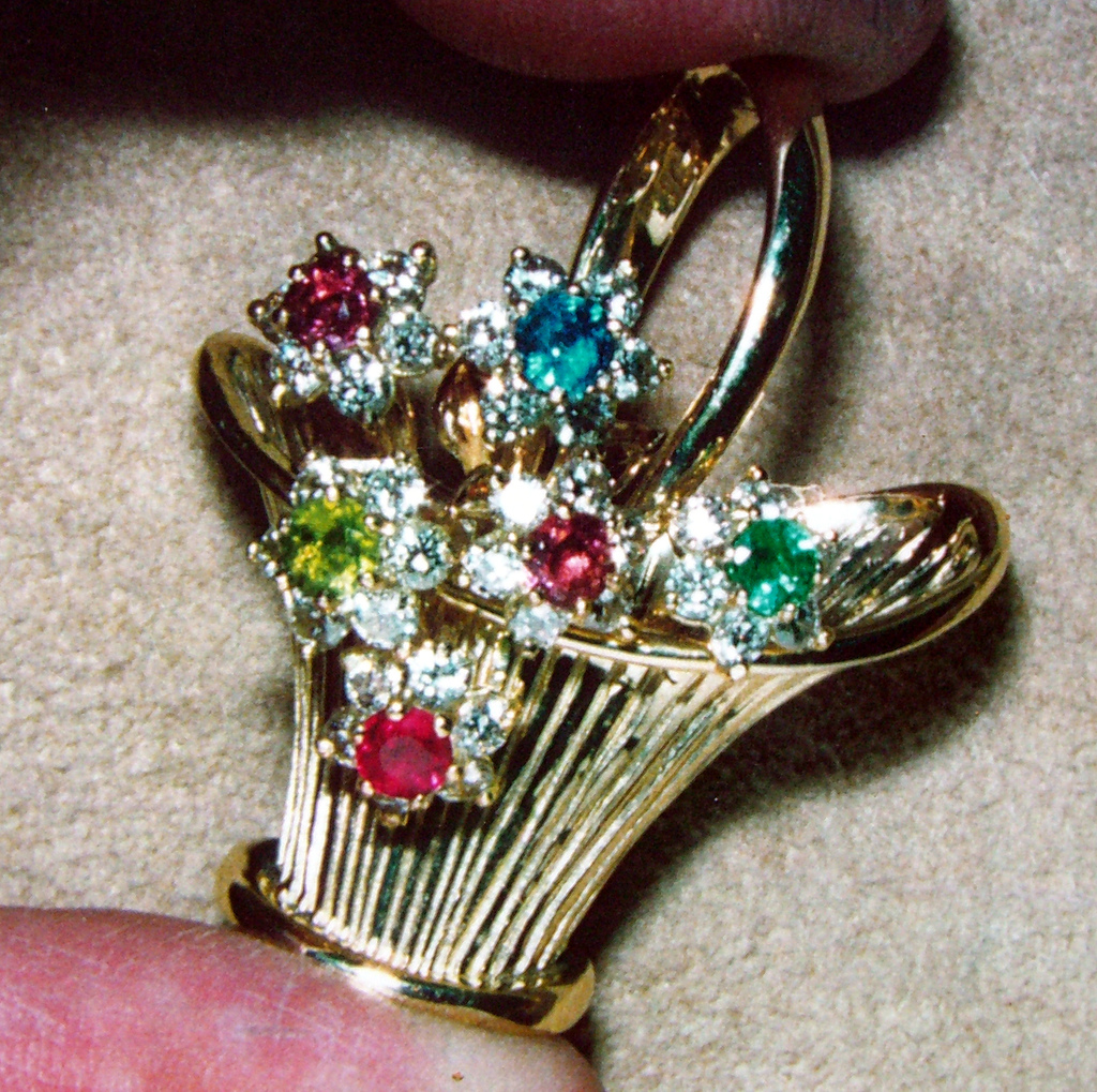 Crafted in 18kt. yellow gold with Mom, Dad and the kids birthstones surrounded with diamonds. About 2" high, it was designed to be a display piece in a Southwest kitchen but it never made it there, she wears it daily